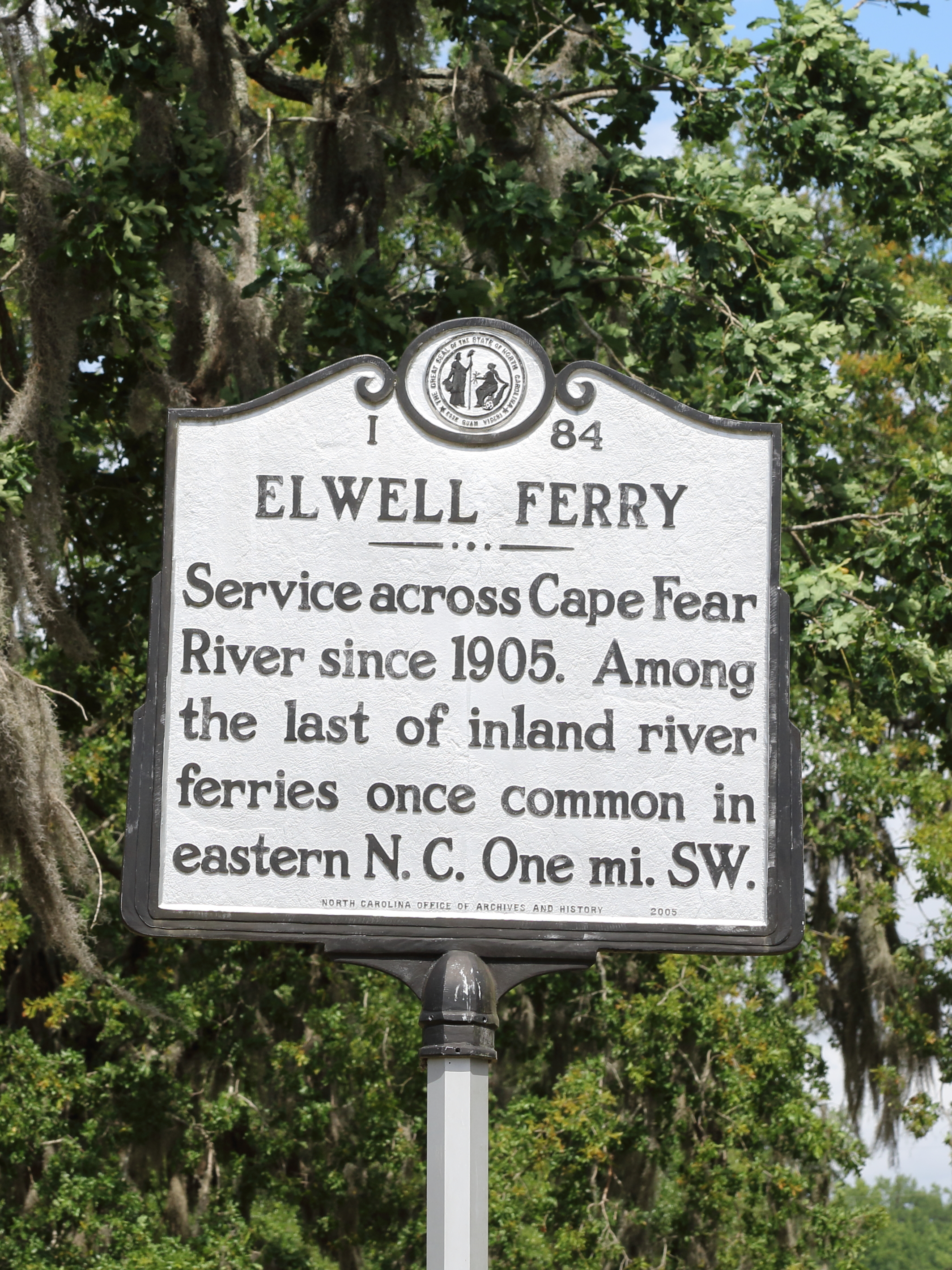 Sign for Elwell Ferry from the east side of the Cape Fear river, at the entrance to Elwell Ferry road, NC Hwy 53